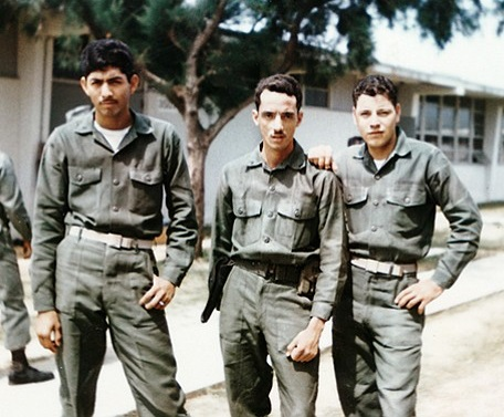 I'm the Marine in the middle and I own the copyright to this photo which I took with a self timer and which appears on the documentary On Two Fronts, Latinos and Vietnam. Example: [1] and [2]